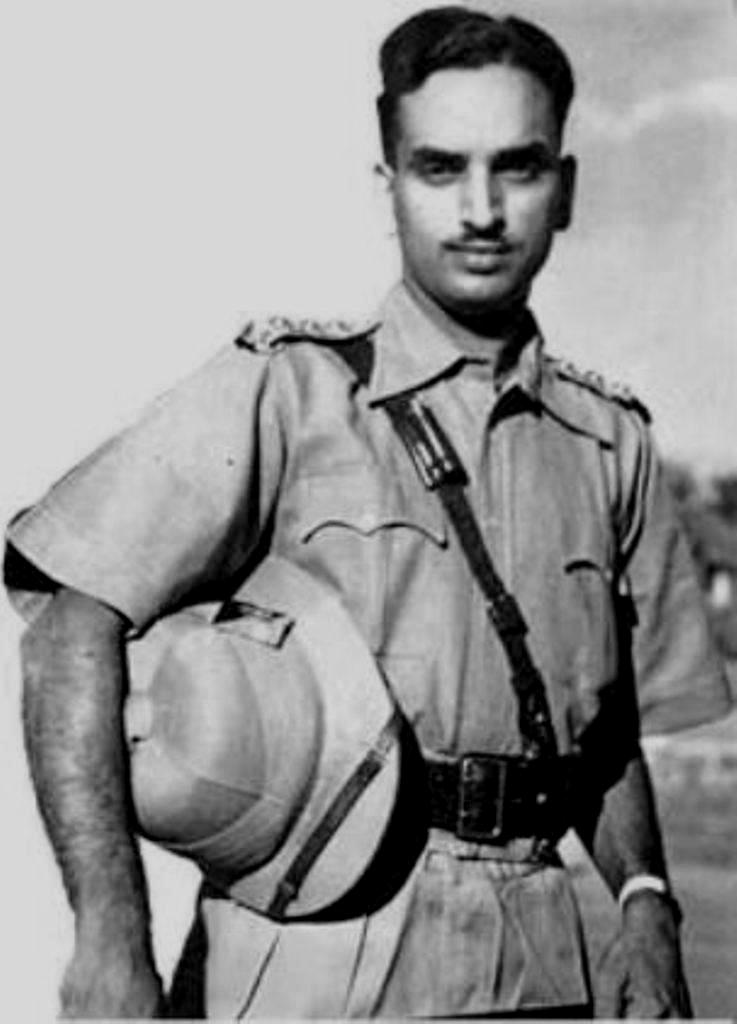 This is the photograph of Prince Consort Lt. Col. Godavarma Raja of Travancore, taken in 1938.